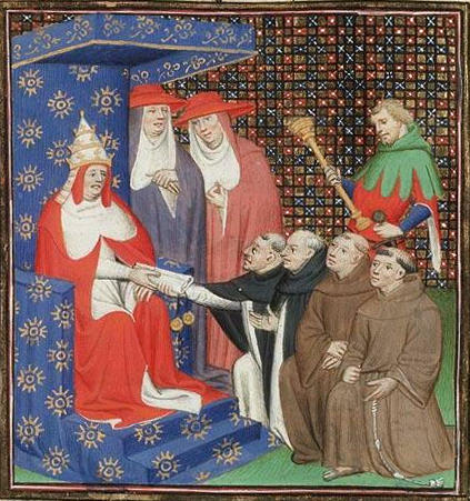 Vincent of Beauvais, Le Miroir Historial (Vol. IV). Pope Innocent IV sends Dominicans and Franciscans out to the Tartars. Place of origin, date: Paris, Master of the Cité des Dames (illuminator); c. 1400-1410 Material: Vellum, ff. 401, 425x320 (254x196) mm, 43 lines, littera cursiva, Binding: 18th-century brown leather; gilt; with coat of arms of Stadholder William V Decoration: 1 two-column miniature (185x200 mm); 19 column miniatures (110/70x90/85 mm); decorated initials with border decoration (ff. 3r, 10r, 15r, 19r, 20r, etc.) Added: 1 illustration in the margin (coat of arms) Provenance: acquired before 1492 by Philip of Cleves (d. 1528; coat of arms with label; signature); purchased in 1531 from his estate by Henri III, Count of Nassau (d. 1538); by descent to the Princes of Orange-Nassau, the later Stadholders, at The Hague; carried off in 1795 toParis by the French and restituted to the KB in 1816 Annotation: Vol. I-III (now: Paris, Bibliothèque Nationale de France, fr. 308-311) were decorated but not illustrated in the early 15th century. Apparently separated from their fourth volume from the beginning, they were illustrated on behalf of a later owner, Louis de Gruuthuse,in the early 1450s